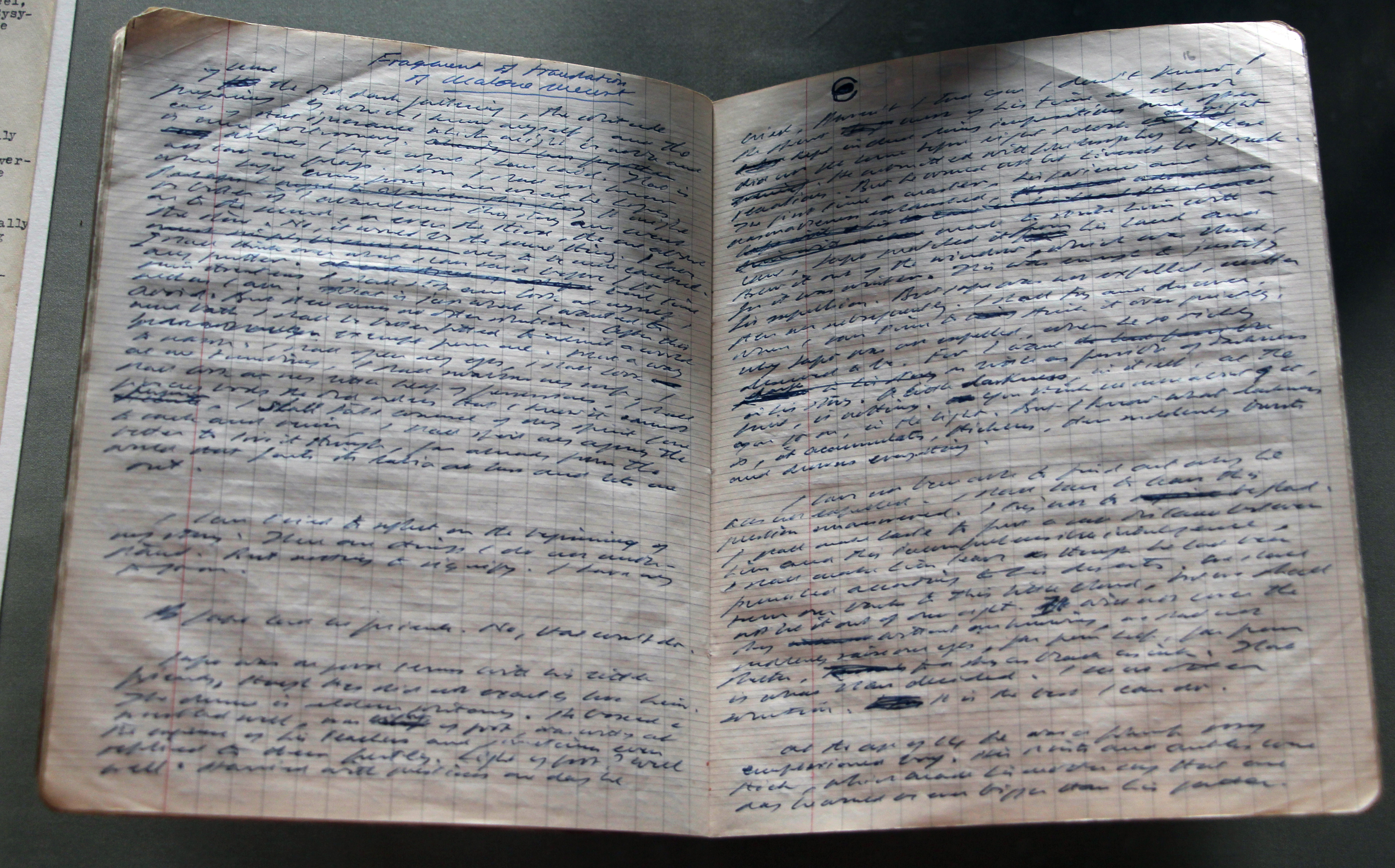 The manuscript of Embers - one-act radio play by Samuel Beckett. Trinity College Library, Dublin, Ireland